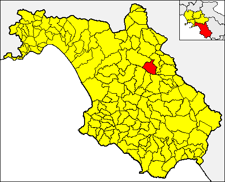 Locator map of the municipality of Petina (red) within the Province of Salerno